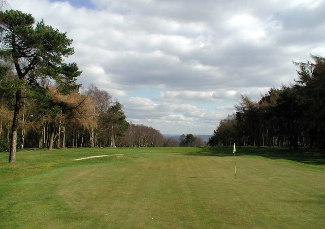 Bingley St. Ives Golf Course The northern end of the golf course, south of Race Course Plantation on the St. Ives Estate near Bingley.